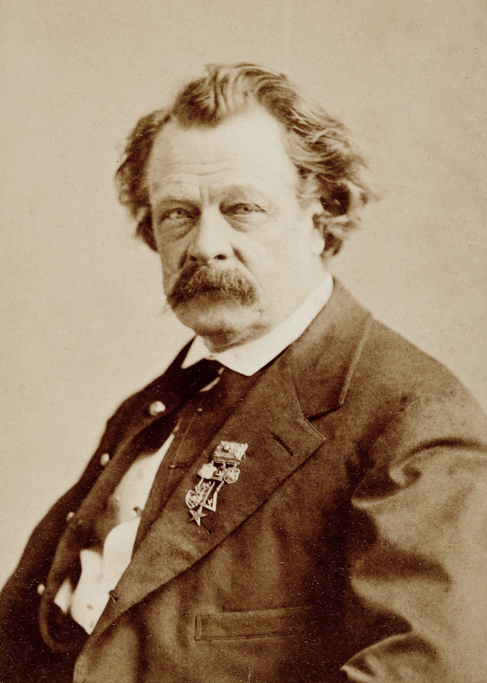 Ned Buntline